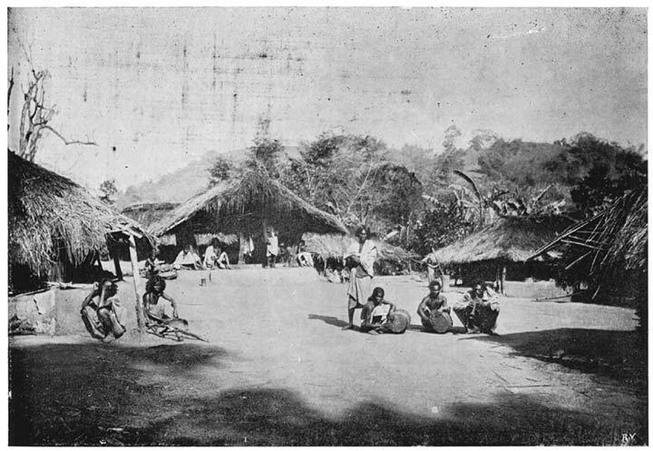 Village of Kurumbas, Madras Presidency, 1909